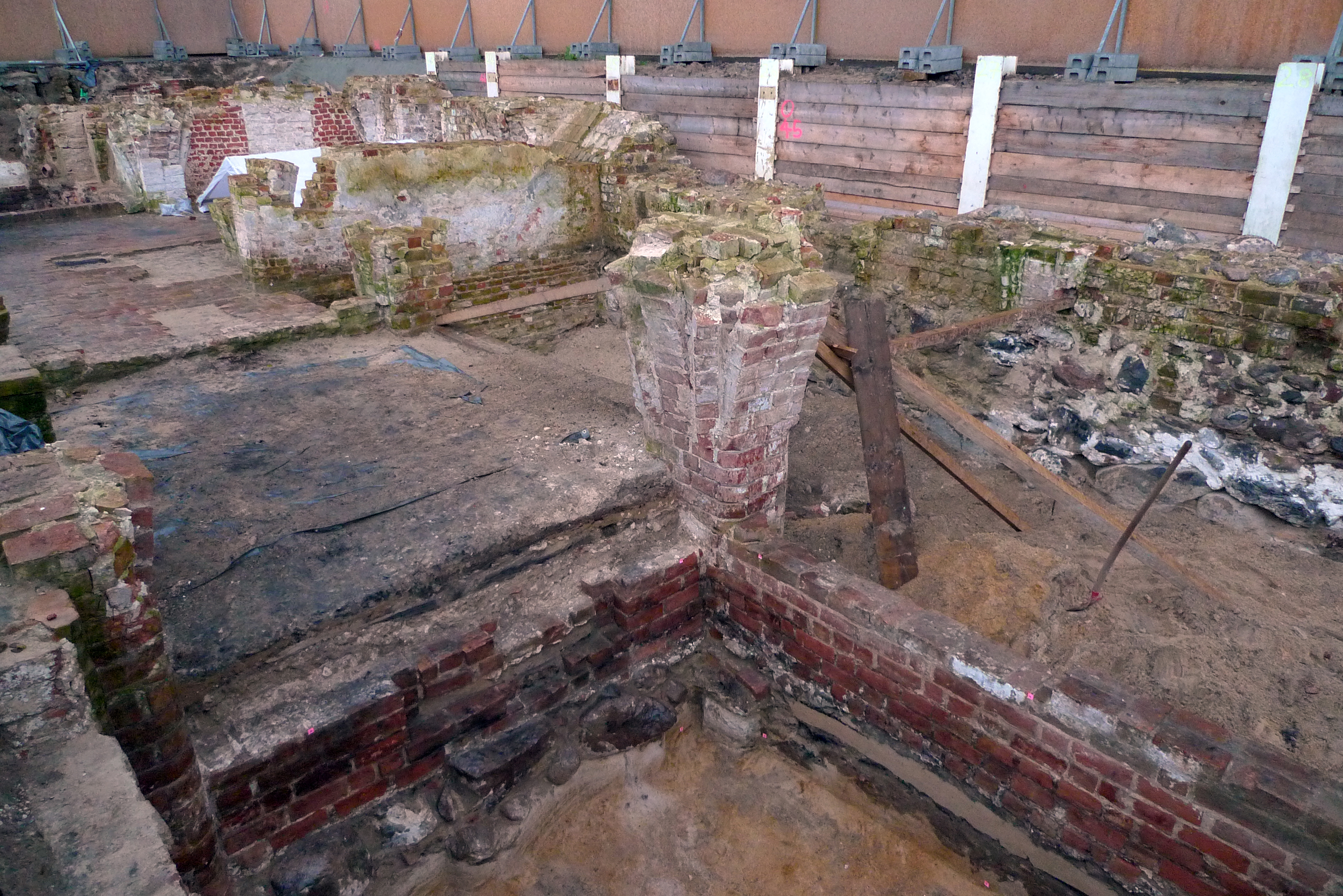 Ruin of the Old Townhall, Berlin